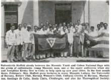 Ruth Moffett in Puerto Rico Original caption: “Ruhaniyyih Moffett stands between the Masonic Youth and Cuban National flags with the group of enthusiastic young Masonic men, one of the eager audiences when she and Josephine Kurka flew to Cuba to help open up new goal cities. In the first month there, February, Mrs. Moffett gave lectures in many Masonic Lodges, the University of Havana, Rotary Club, Havana Women's club, Cultural Circles in Havana, Mantanzas, Santiago de Cuba, Santa Clara, Cienfuegos, and also the Theosophical Society.”